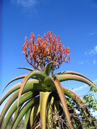 Aloe vaombe